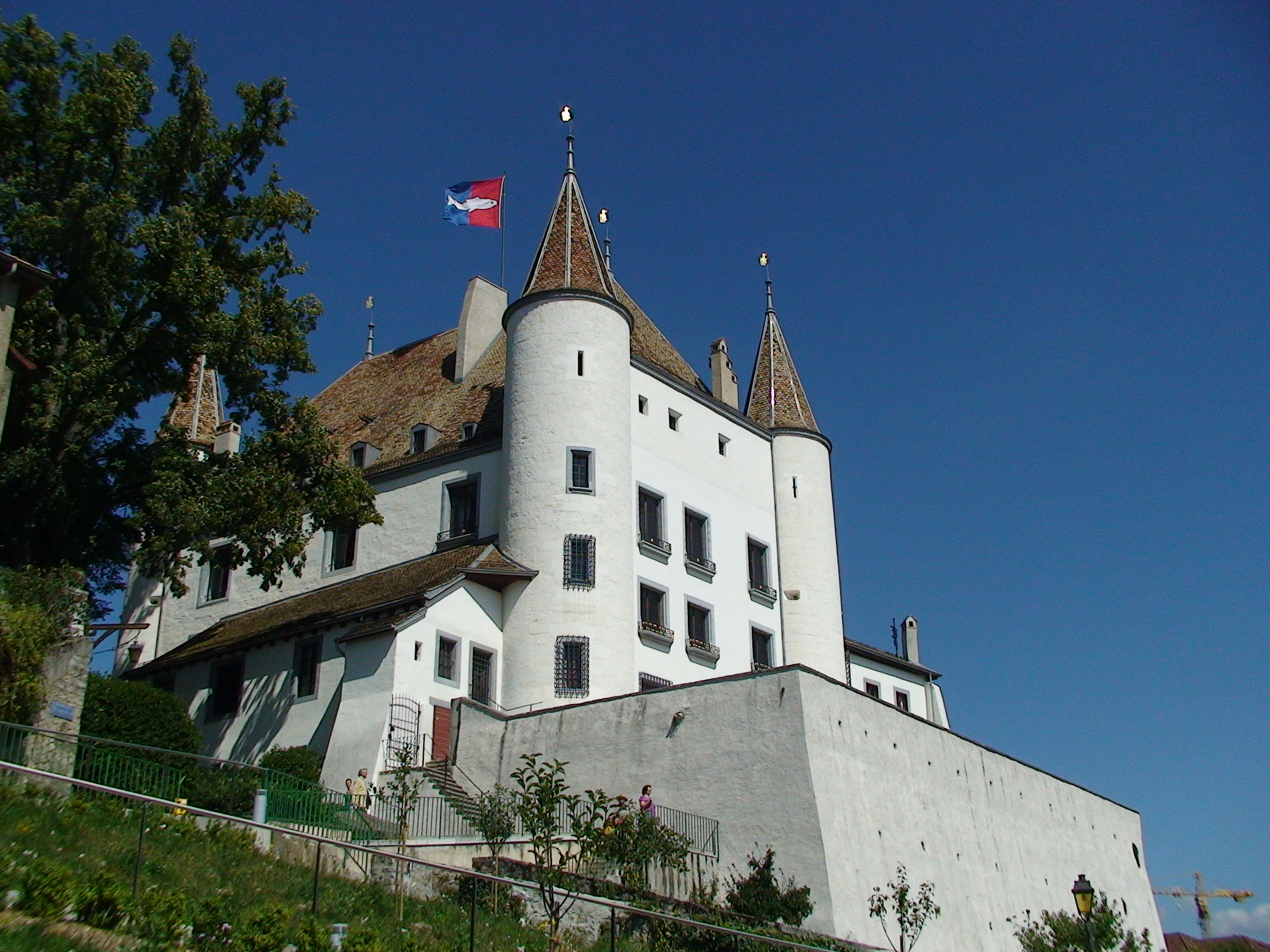 The castle of Nyon, Switzerland